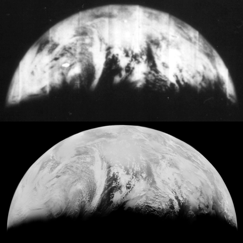 This is a comparison of an original image (top) made by Lunar Orbiter 1 in 1966 and a digitally processed version (bottom) released by NASA in 2008. The cleanup work is being done as part of the Lunar Orbiter Image Recovery Project (LOIRP).